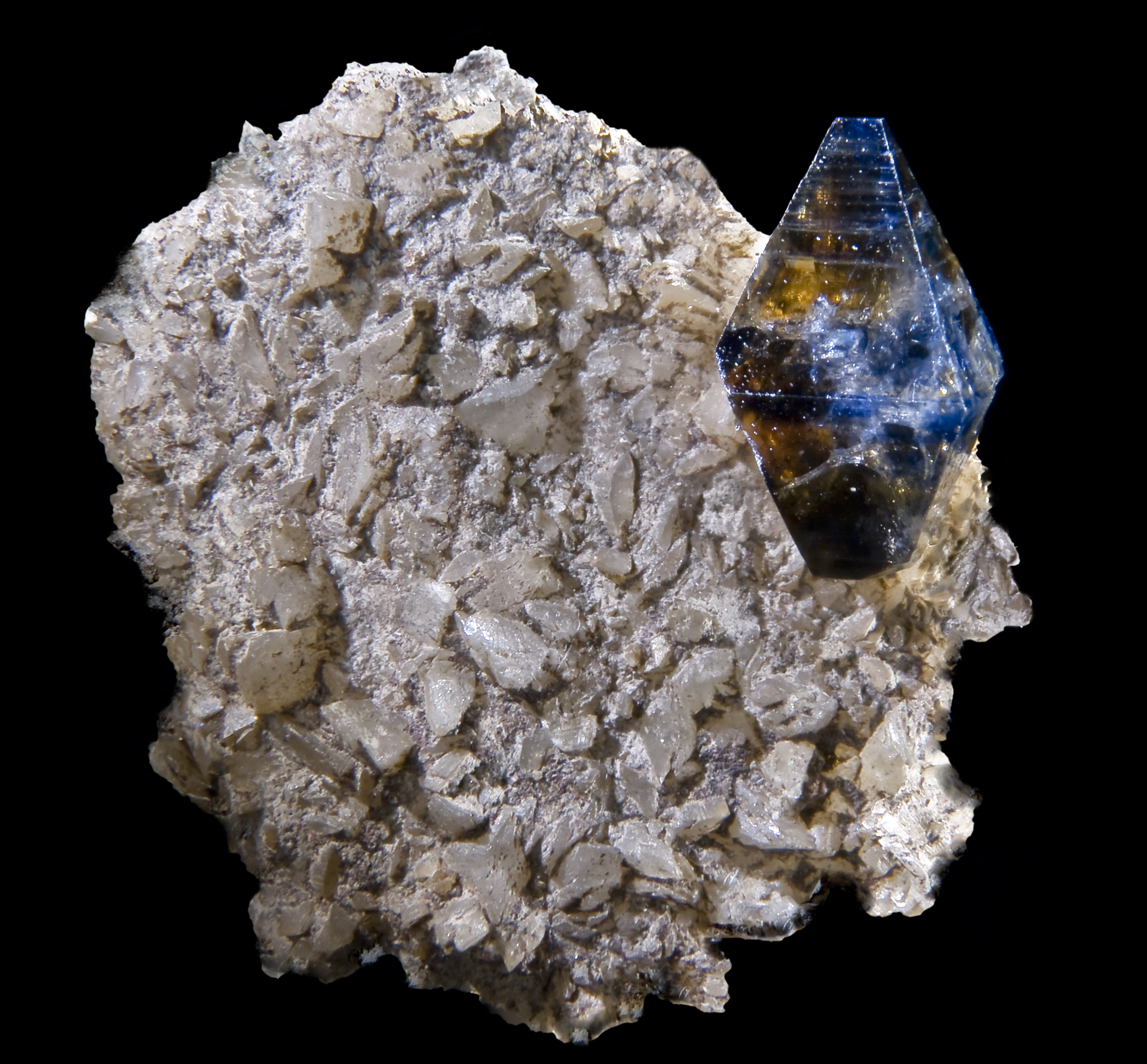 Anatase Locality : St Christophe-en-Oisans, Bourg d'Oisans, Isère, Rhône-Alpes, France - Topotype deposit Size :1.7 × 1.7 cm